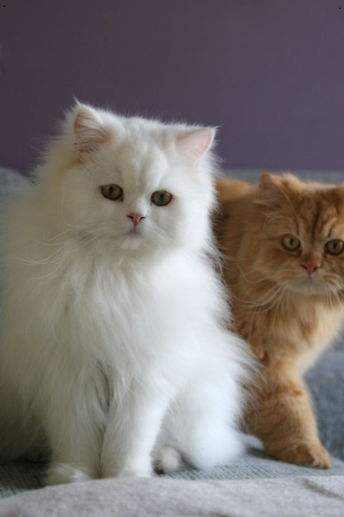 My beloved pets Snowy with Hazy.